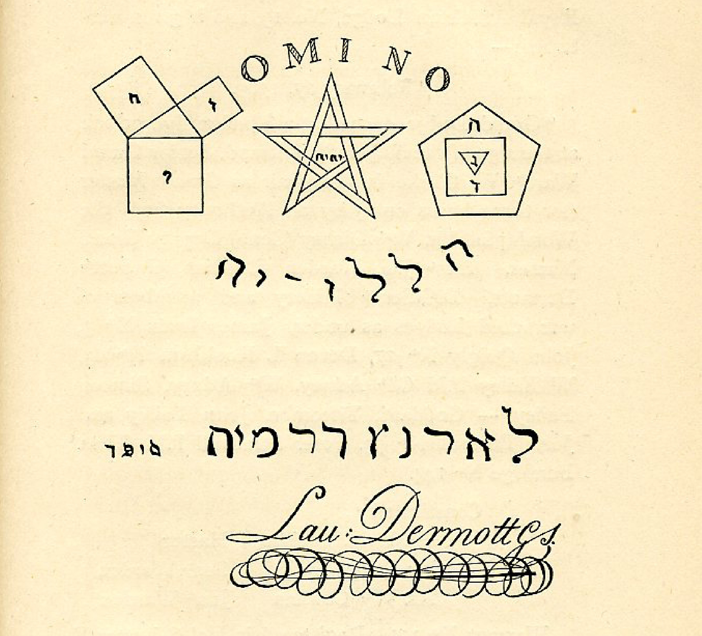 Hand drawing by Laurence Dermott from first volume of minutes of the Ancients Grand Lodge, between the text and the index.